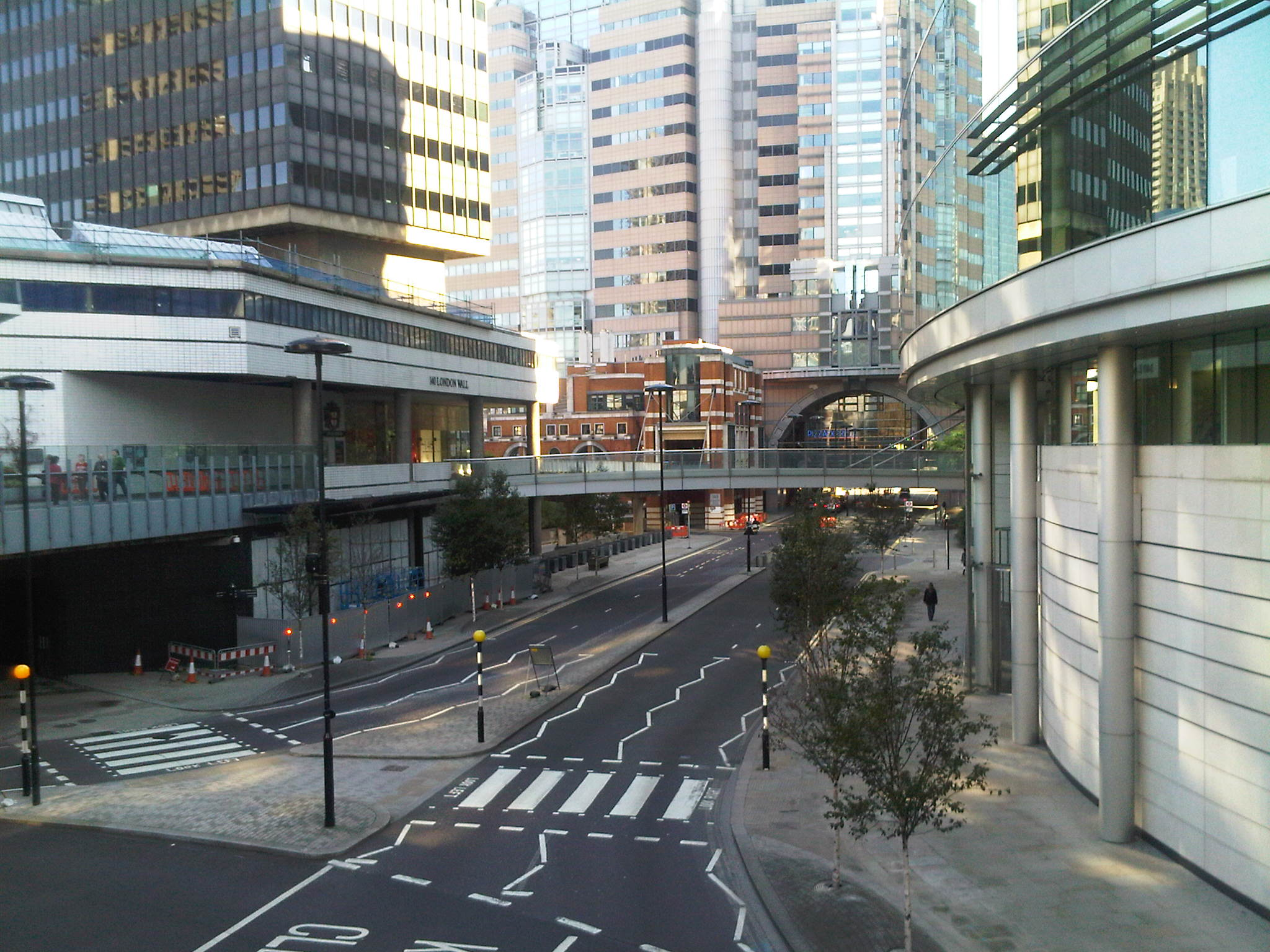 Looking down London Wall, a street in City of London